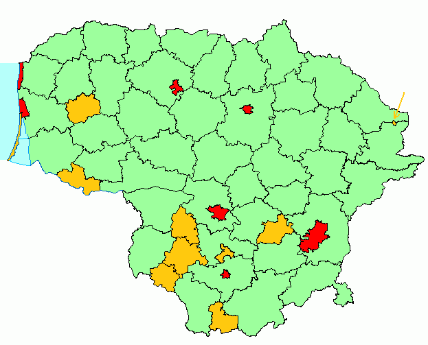 Map of the municipalities of Lithuania, city municipalities in red, seaside municipalities dark green, rayon municipalities in light green, non-specified muicipalities in yellowish green